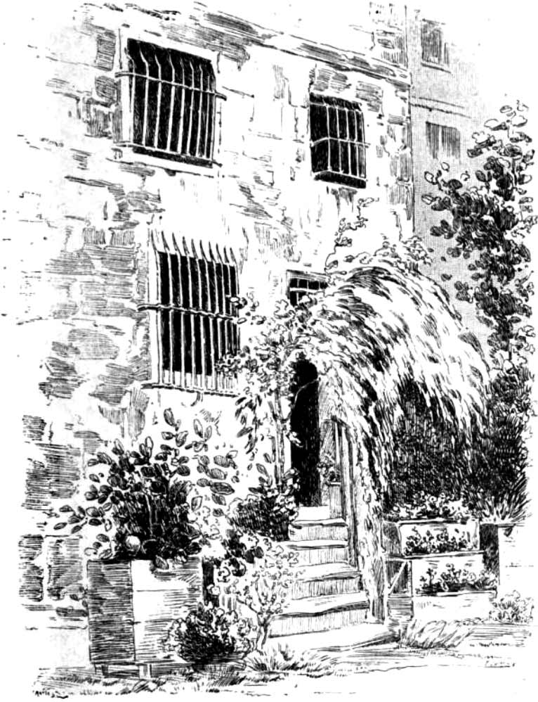 The Convent of the Carmes Doorstep in Paris, France where refractory priests were massacred on Sunday, September 2, 1792, in what would later be called the September Massacres.